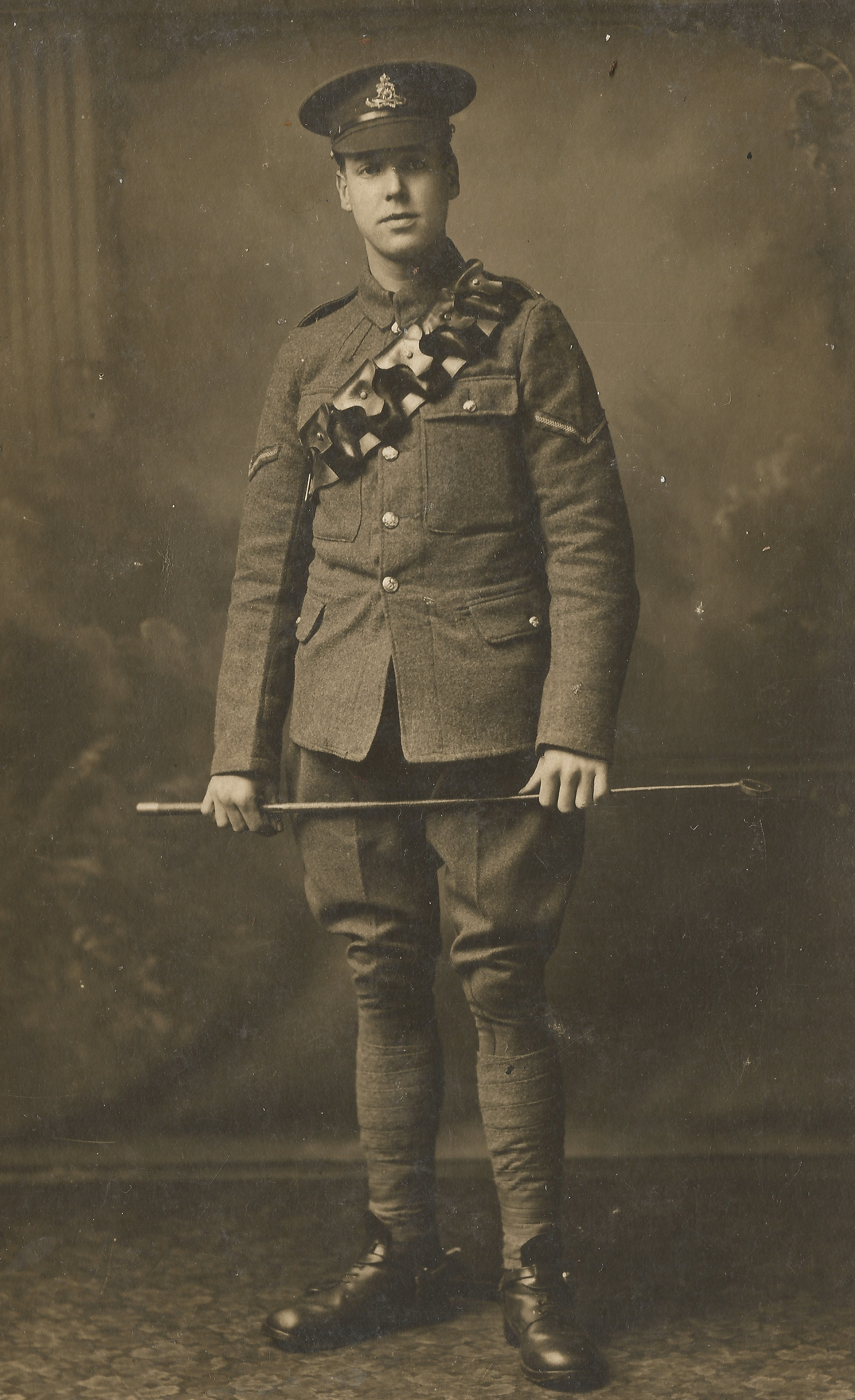 Portrait of Bombardier Duncan Bromwich of Leyton (1893–1917)